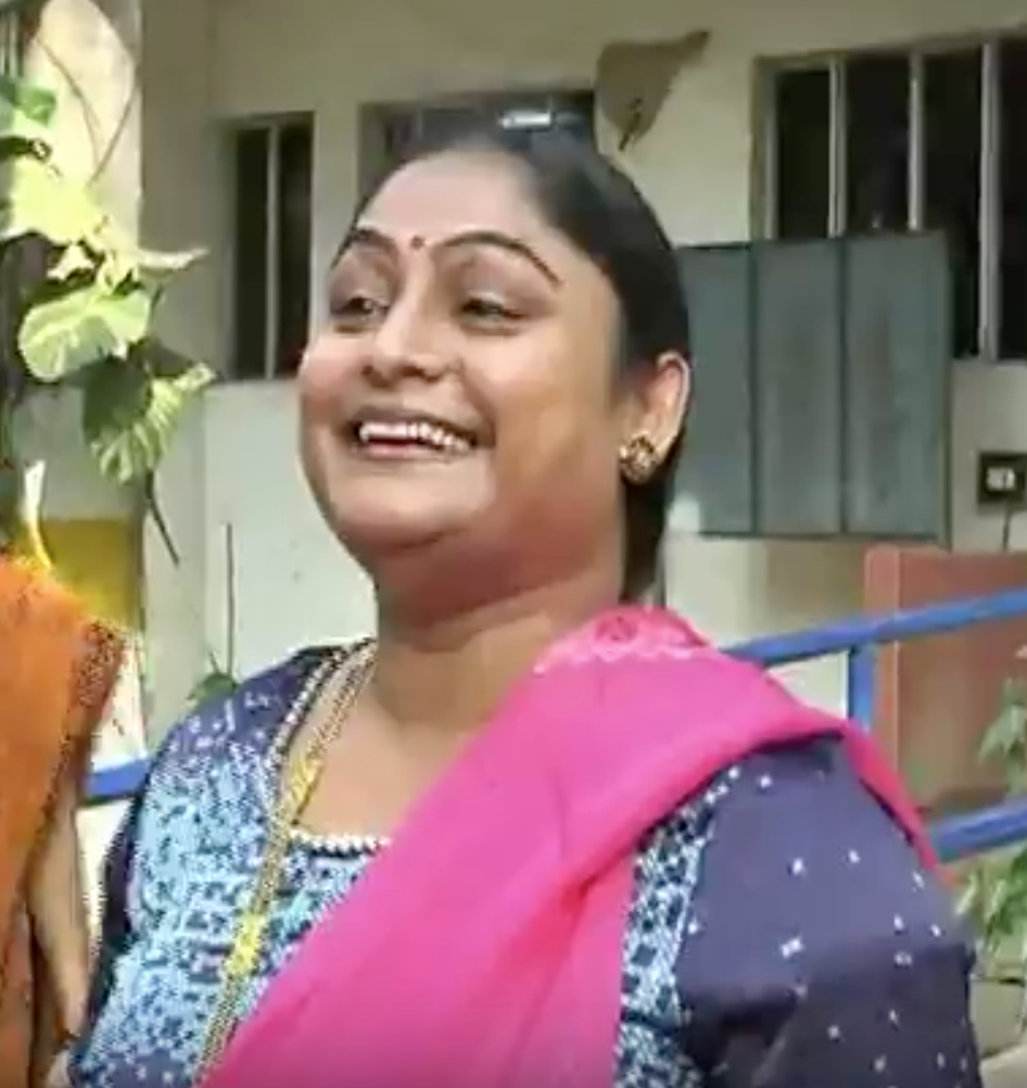 Karanam Malleswari